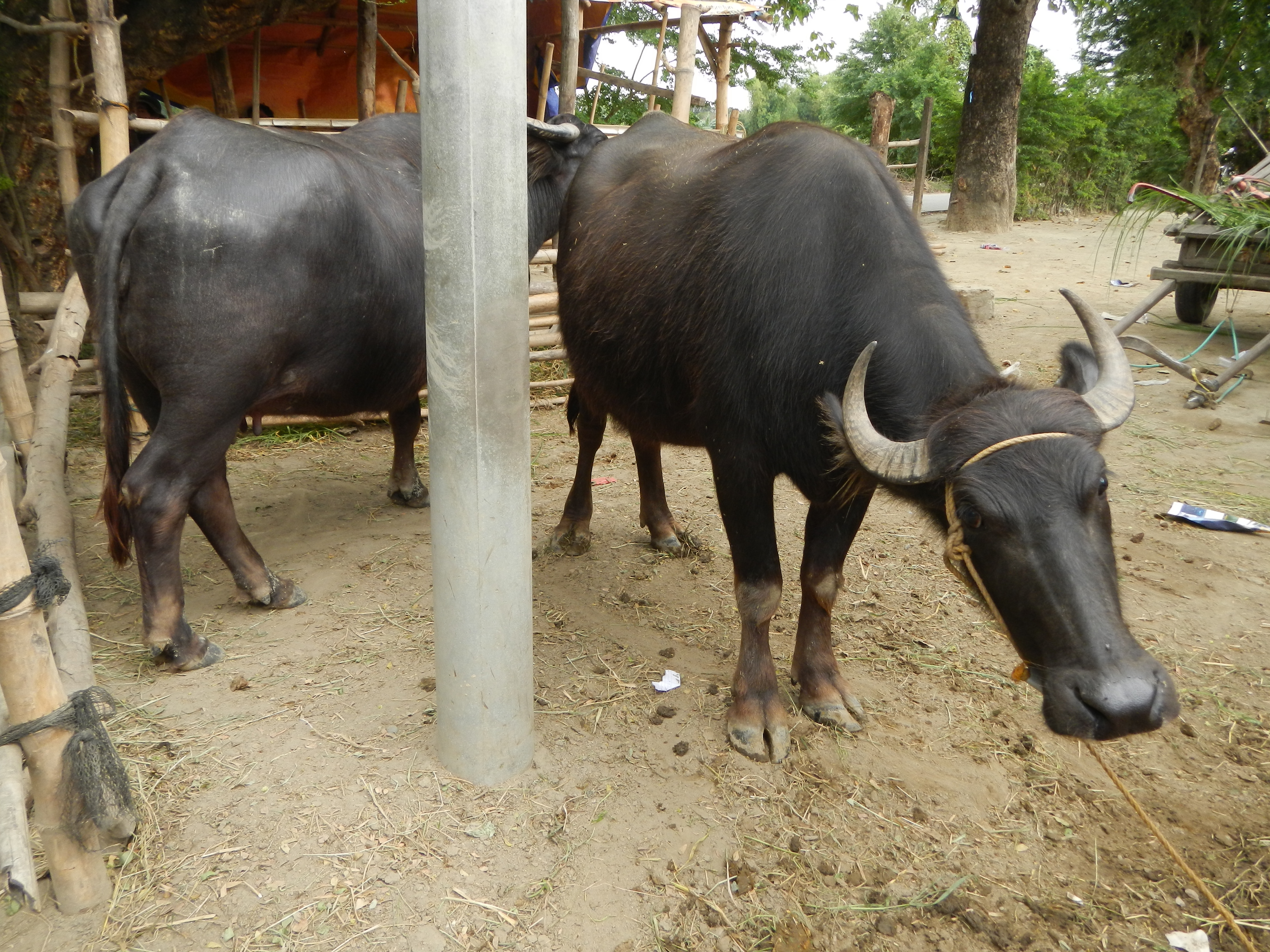 Carabaos in the Philippines in Barangay Lanang, Candaba, Pampanga